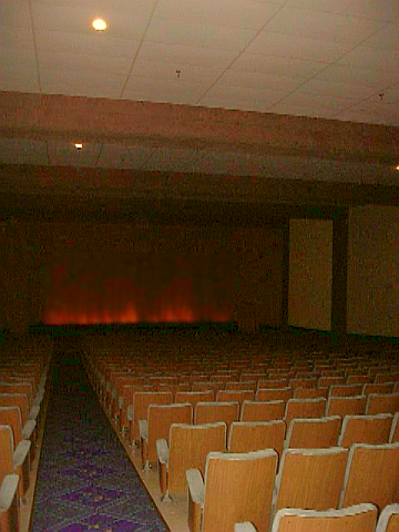 50s Style Movie Thearter